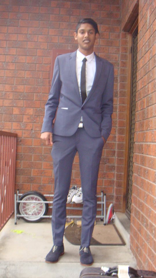 This is a picture of Anura Ranasignhe after his 5th Century